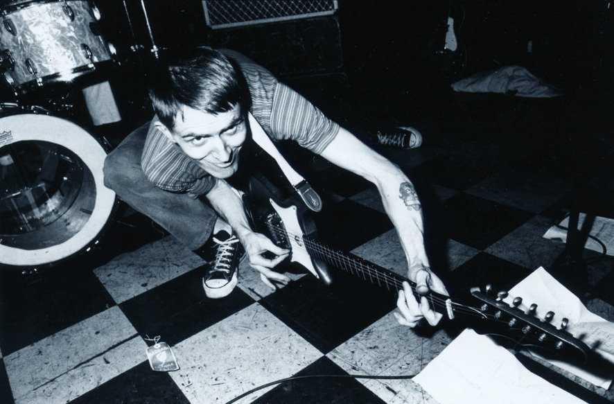 Billy Childish with the Headcoats at Shinjuku loft, Japan date est. 1992?